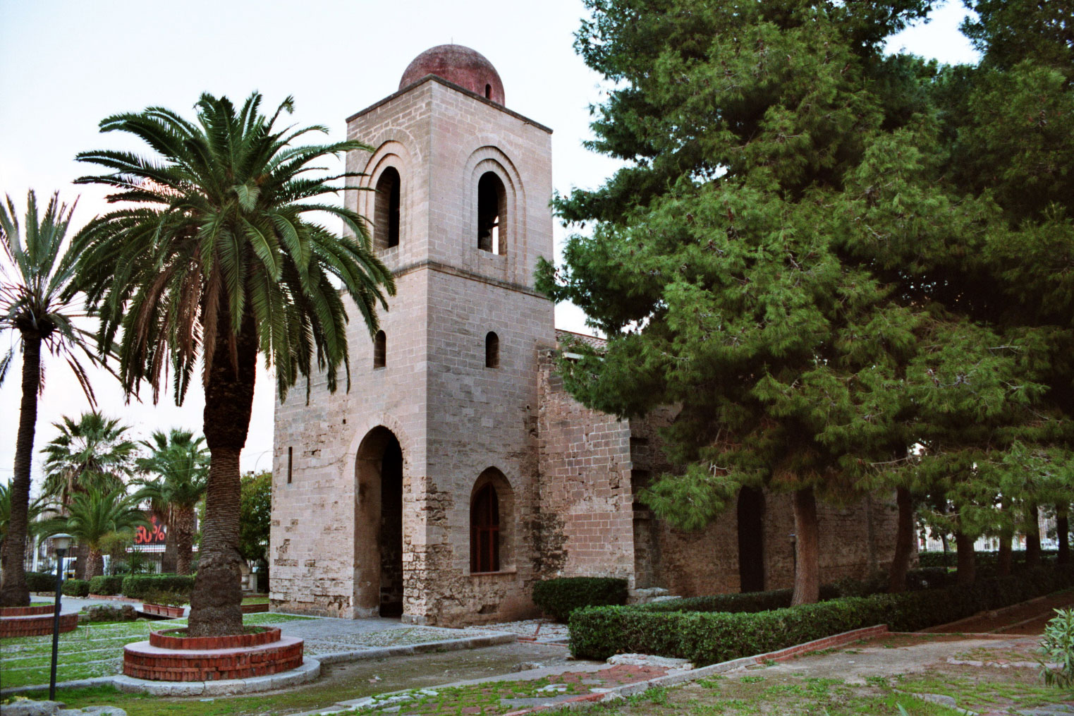 San Giovanni dei Lebbrosi, Palermo Main facade with bell tower